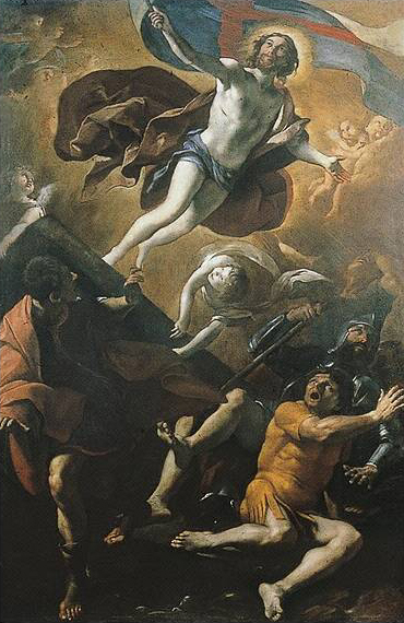 The Resurrection